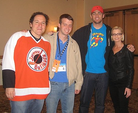 Jaime Pressly, Jon Favreau, Robert McCurdy & Cole Dabney, founders of the Austin Film Critics Association, after a press junket interview for I Love You, Man at SXSW 2009.